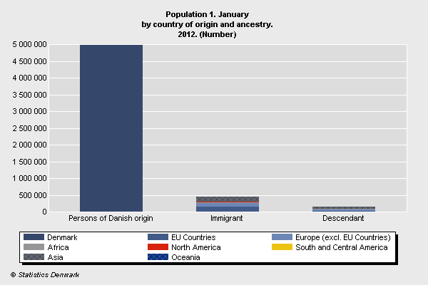 Population of Denmark 1.January 2012 by ancestry.